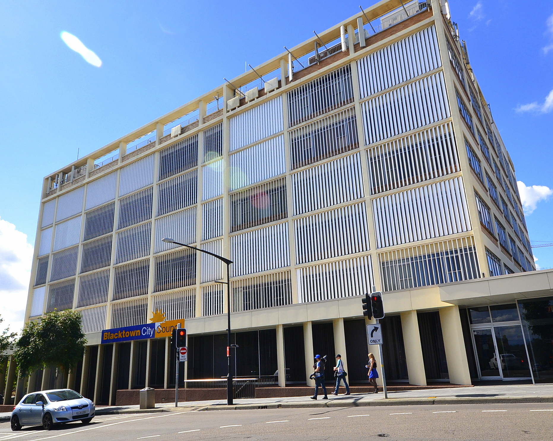 Blacktown Council Chambers, Sydney